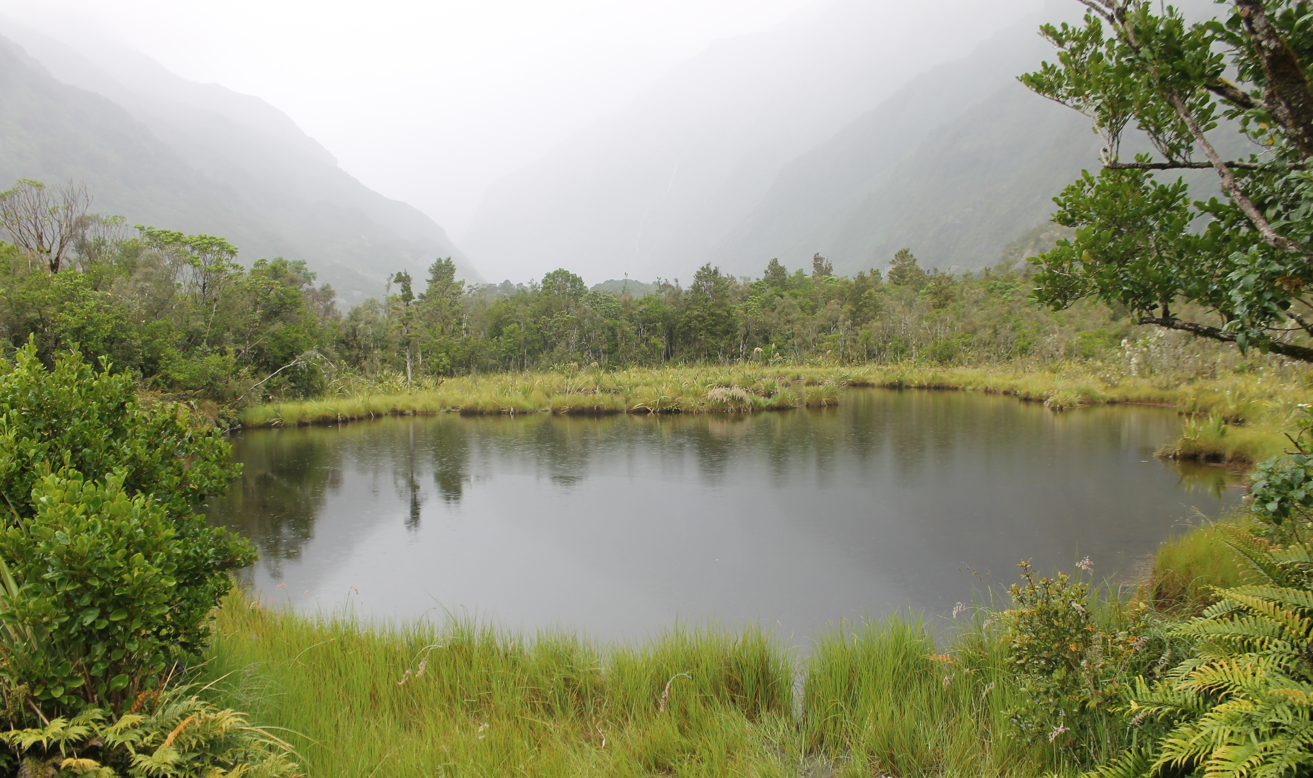 New Zealand Rainforest, South Island